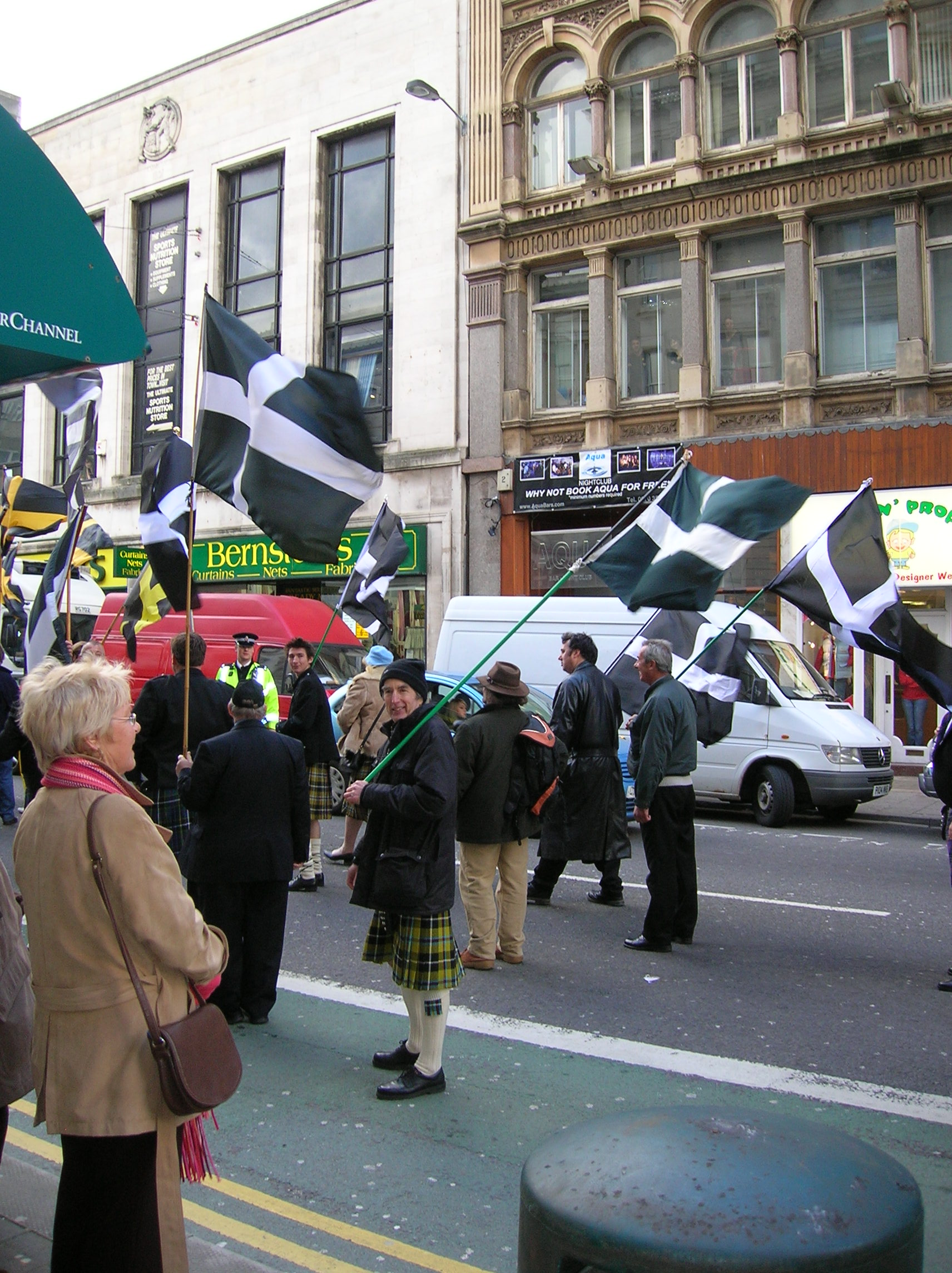 Cornish flags at the St Davids Day parade in Cardiff, Wales